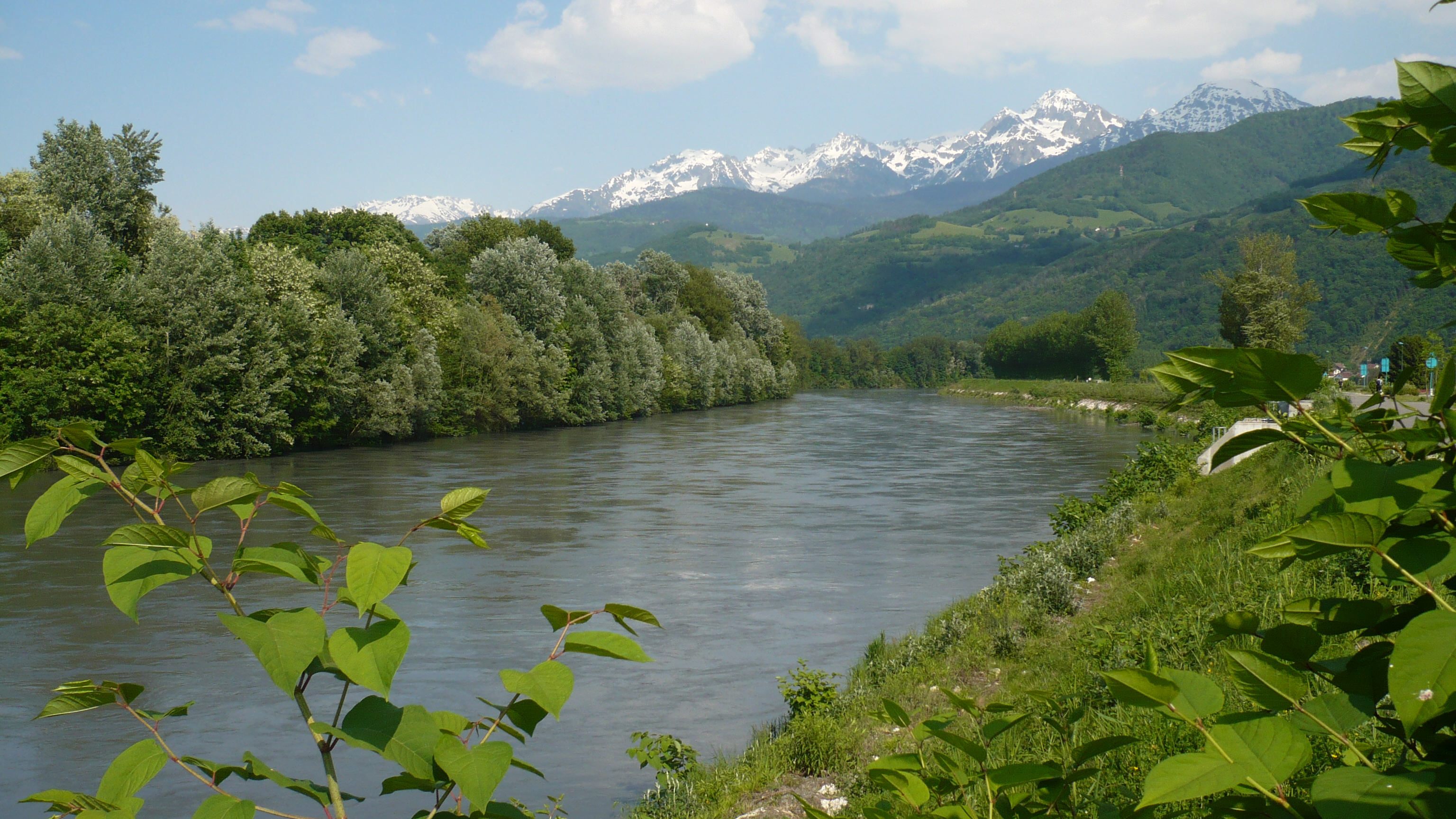 The Isère river at Gières, with the Belledonne mountain channel backside.